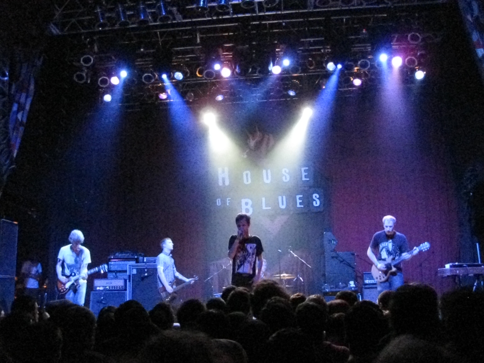 La Dispute performing November 11, 2011 at the House of Blues in San Diego, California. Left to right: guitarist Kevin Whittemore, bassist Adam Vass, singer Jordan Dreyer, and guitarist Chad Sterenberg. Drummer Brad Vanger Lugt is not visible behind Dreyer.